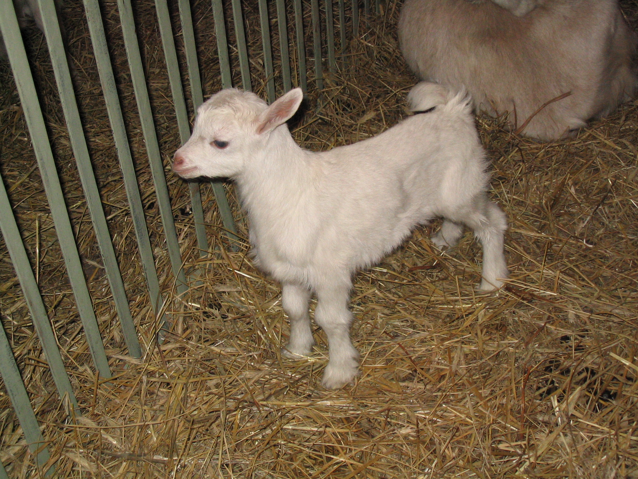 it's small goat on my farm